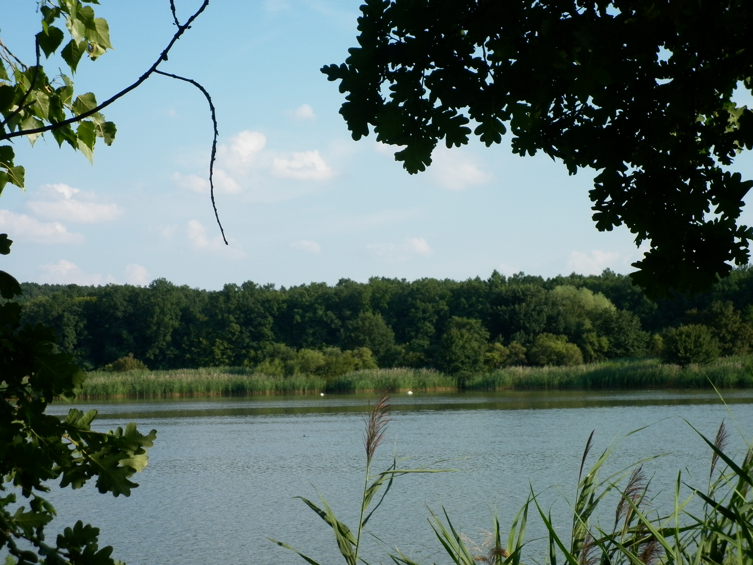 Natural reserve "Žernov", located in Pardubice District, Czech Republic. Valuable oak-hornbeam forest with surrounding ponds and wetlands. "Šmatlán" pond.